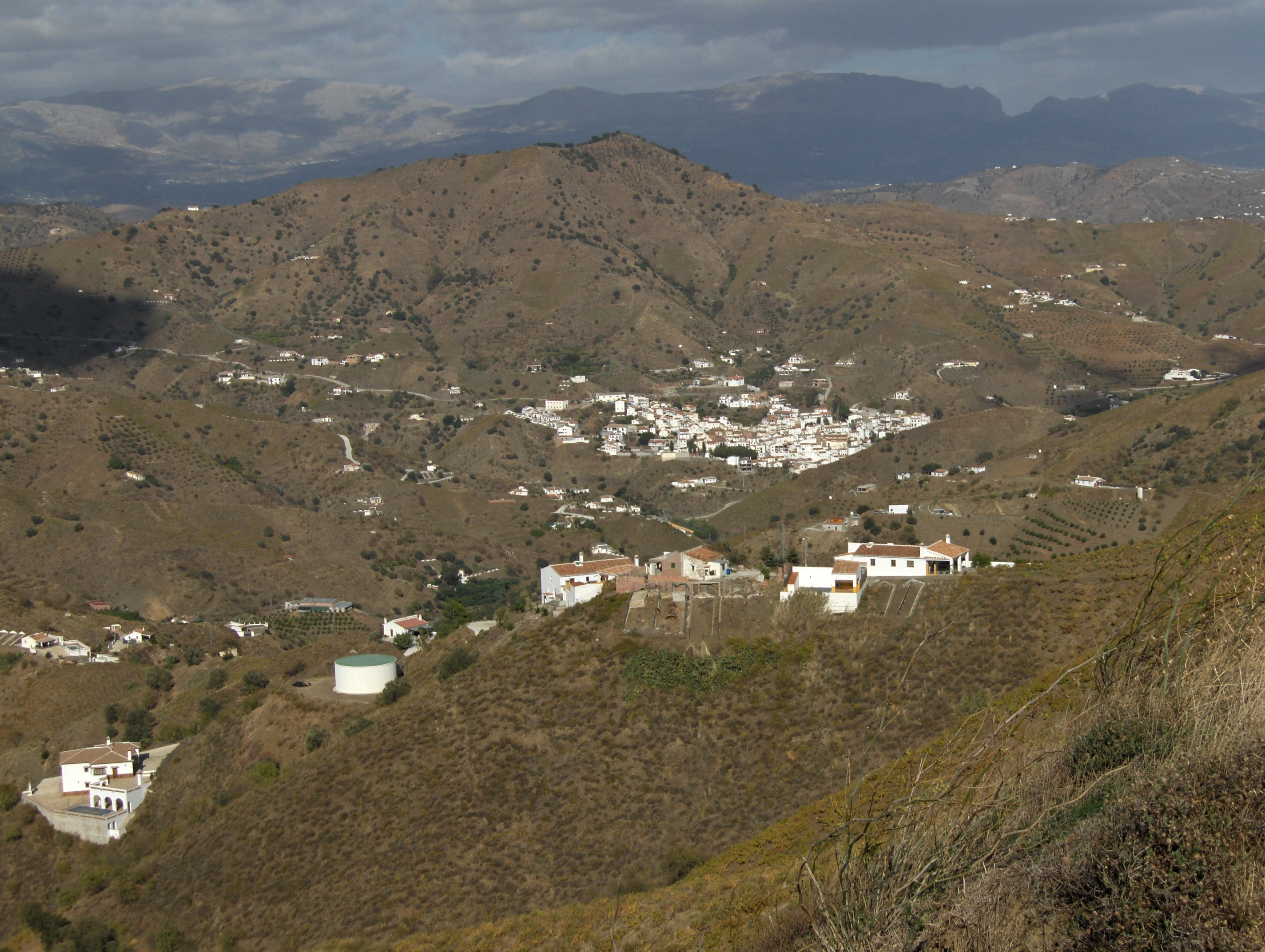 Almáchar